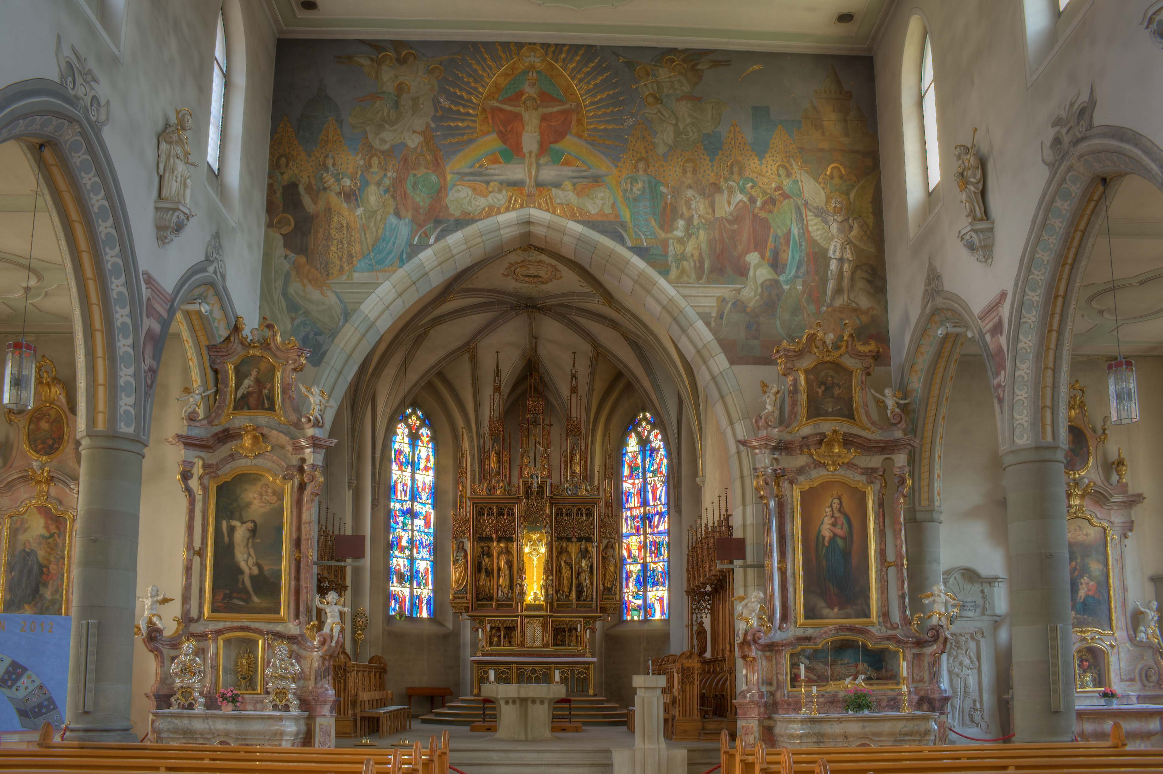 Gothic nave and choir of the Church of St. Martin in Wangen im Allgäu